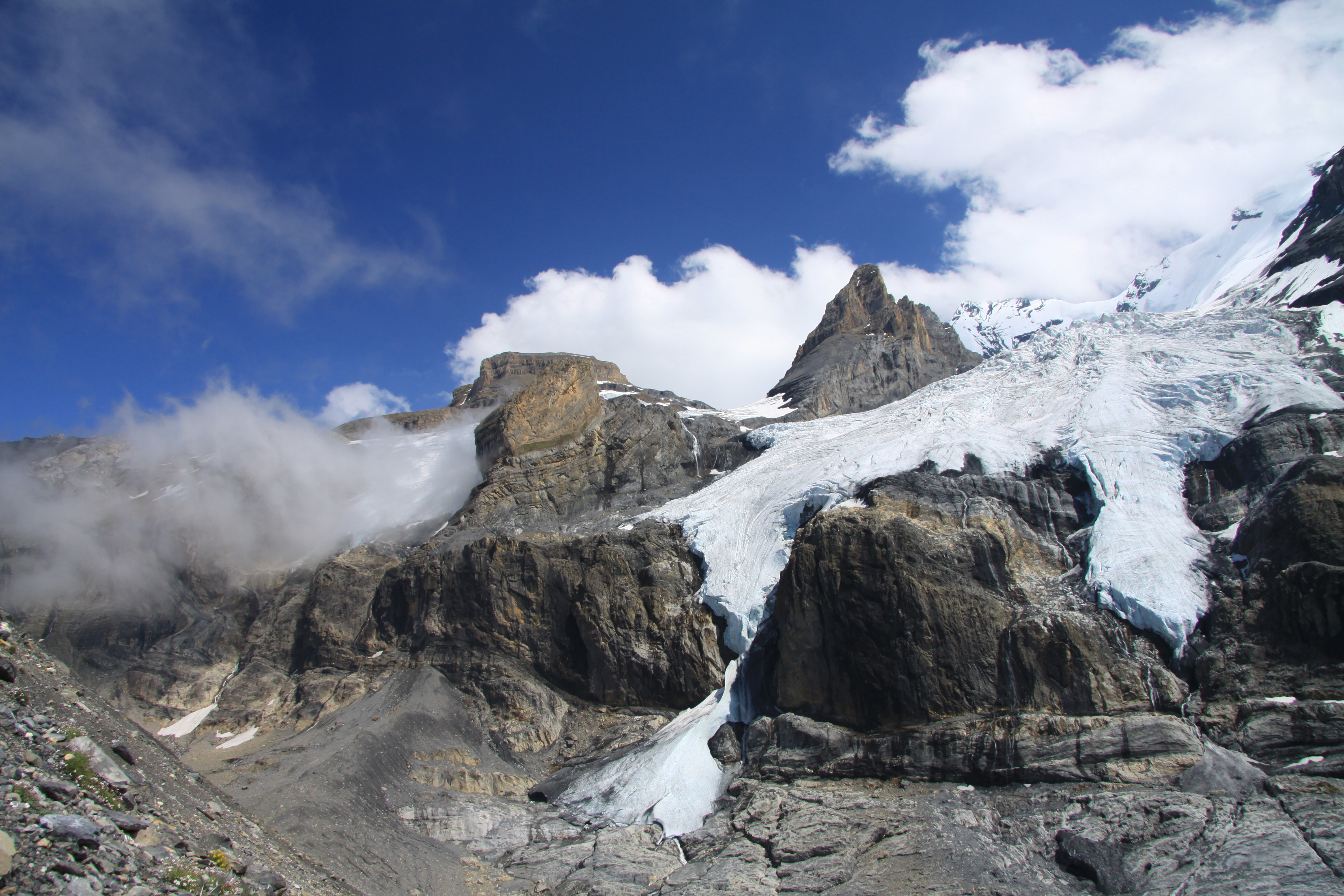 Blüemlisalp Glacier on northern flank of Wyssi Frau, Switzerland